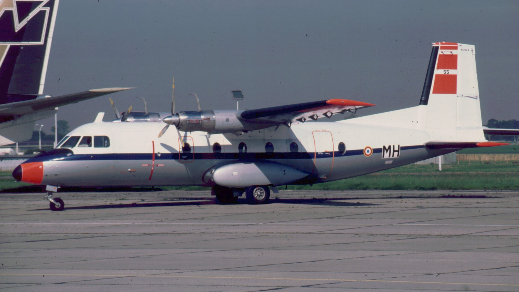 Nord 262 Serial No 55 of the Centre d'Essais en Vol